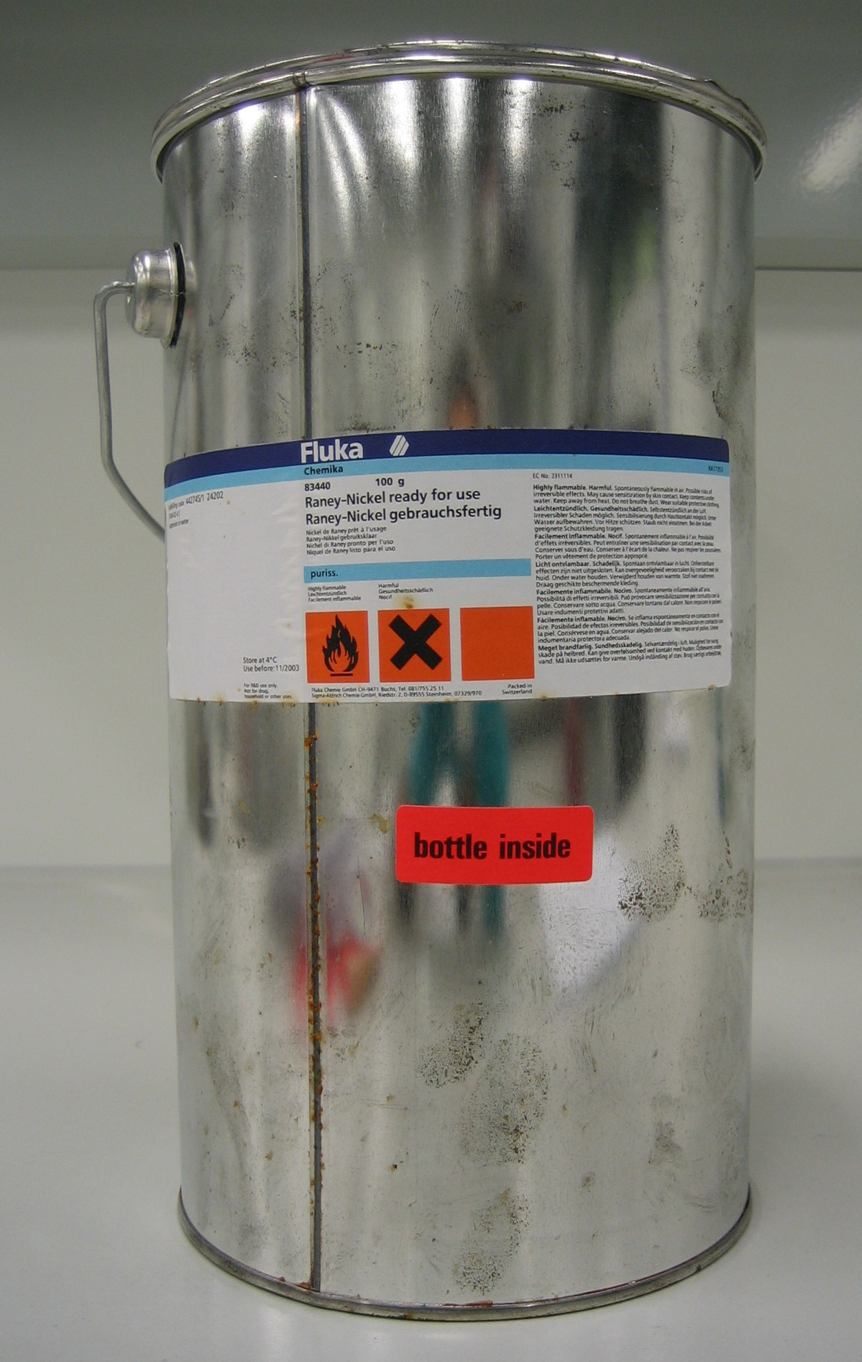 A sealed container used for storing a bottle of activated Raney nickel.